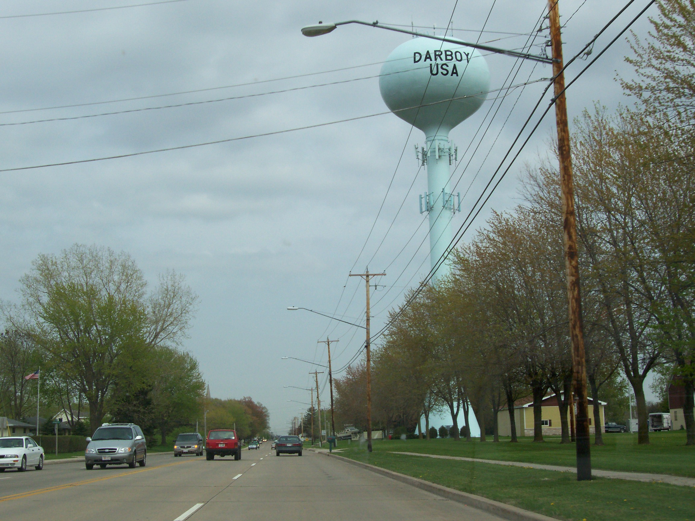 Looking east at the watertower for Darboy, Wisconsin, USA.